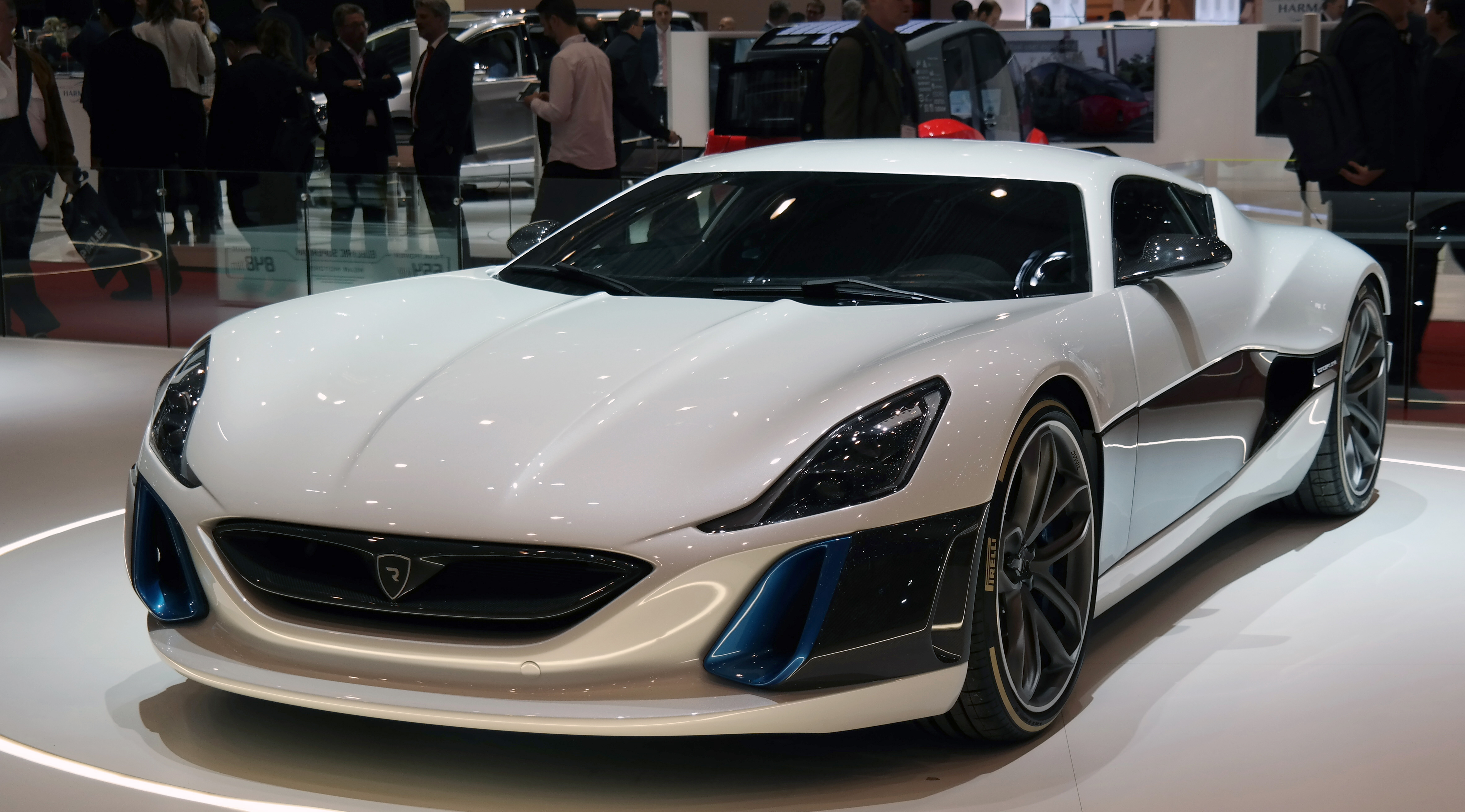 Geneva Motor Show 2017 (photo taken on the first press day)